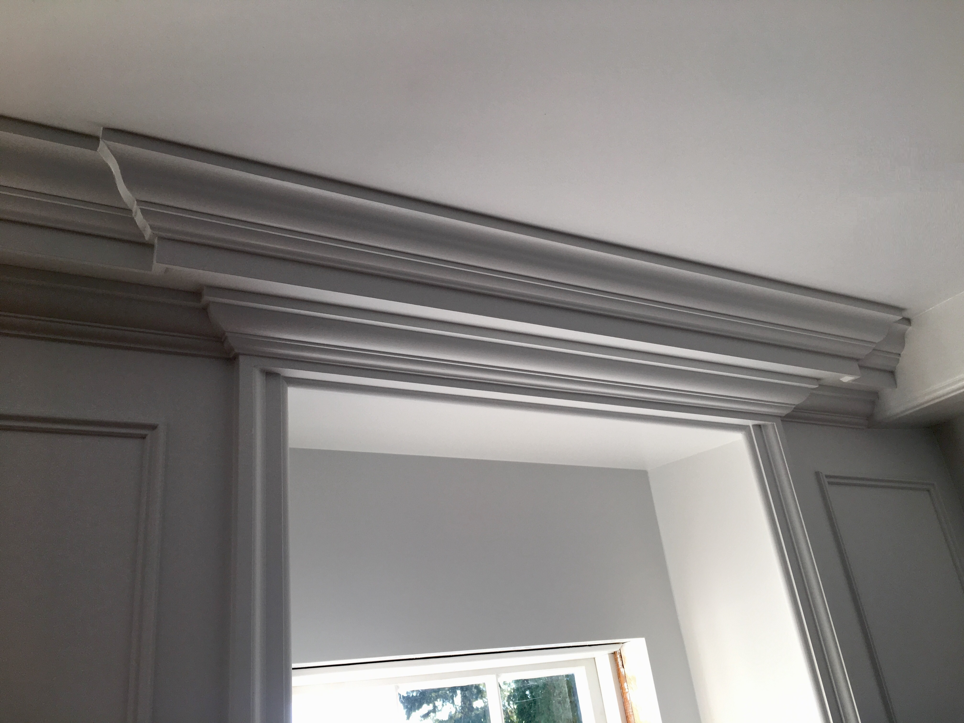 "Match-existing" new installation of crown molding at Bray House, Kittery Point, Maine, during November 2017 remodel